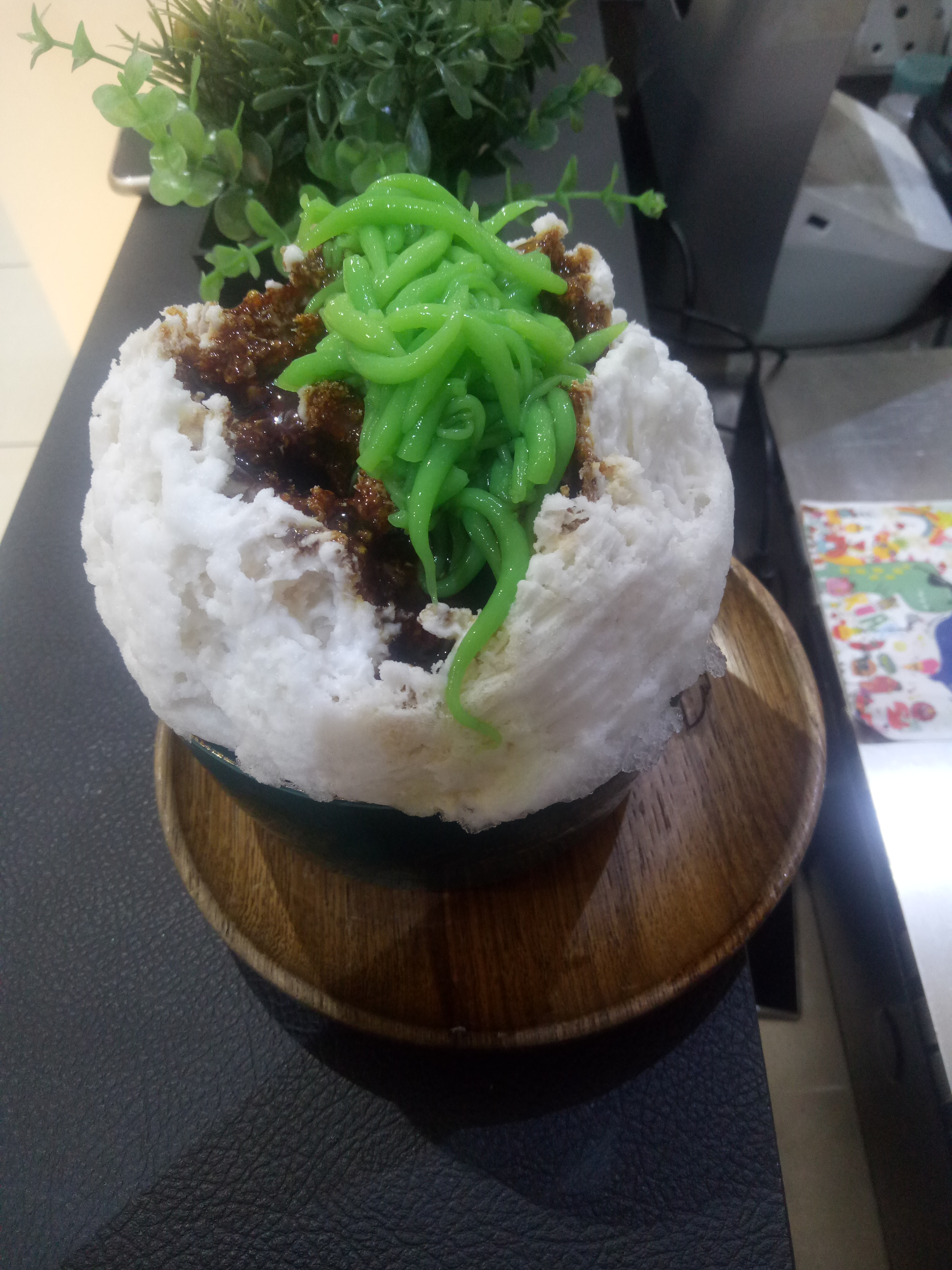 green rice flour jelly, coconut milk and palm sugar syrup